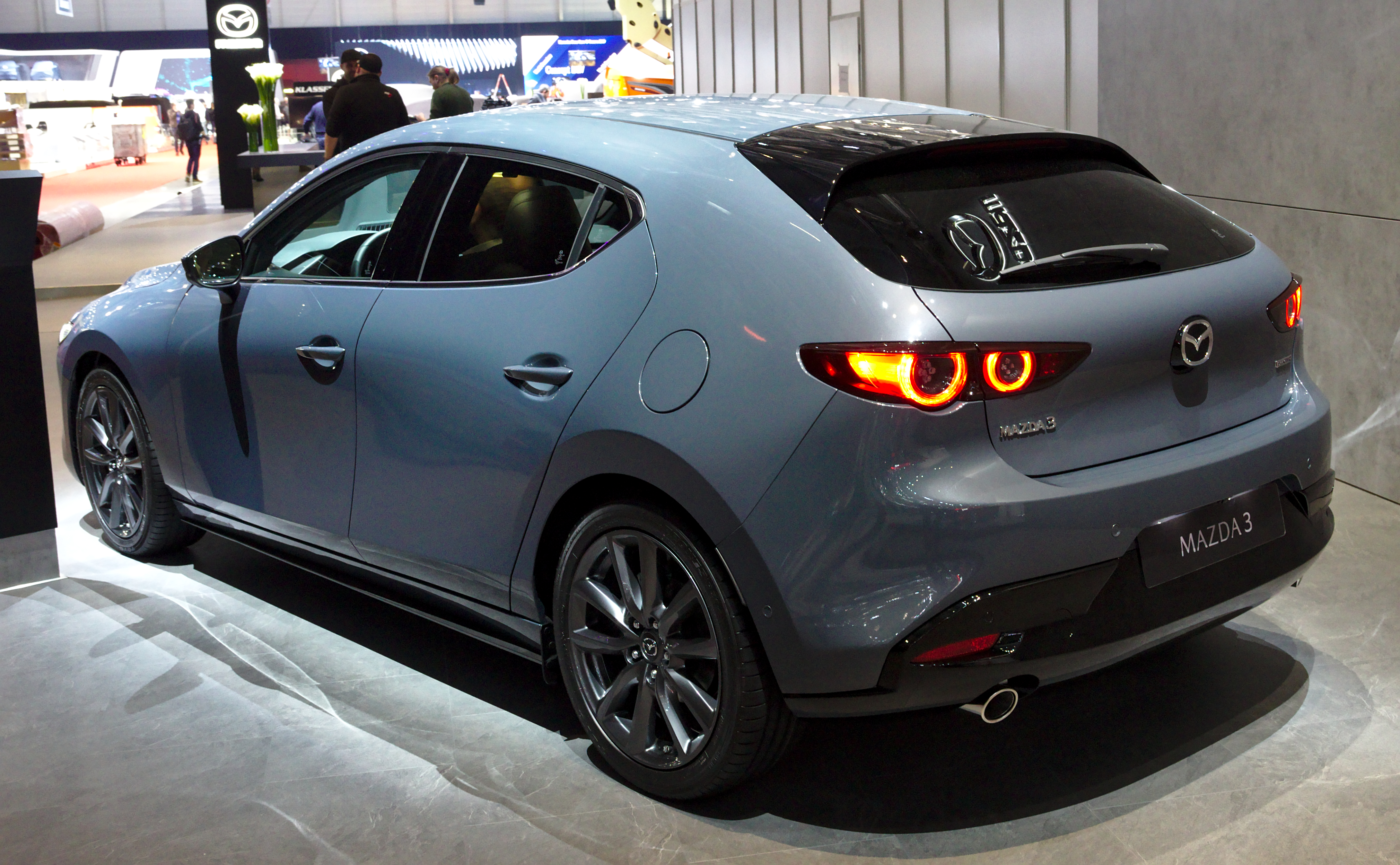 Mazda 3 at Geneva Motor Show 2019